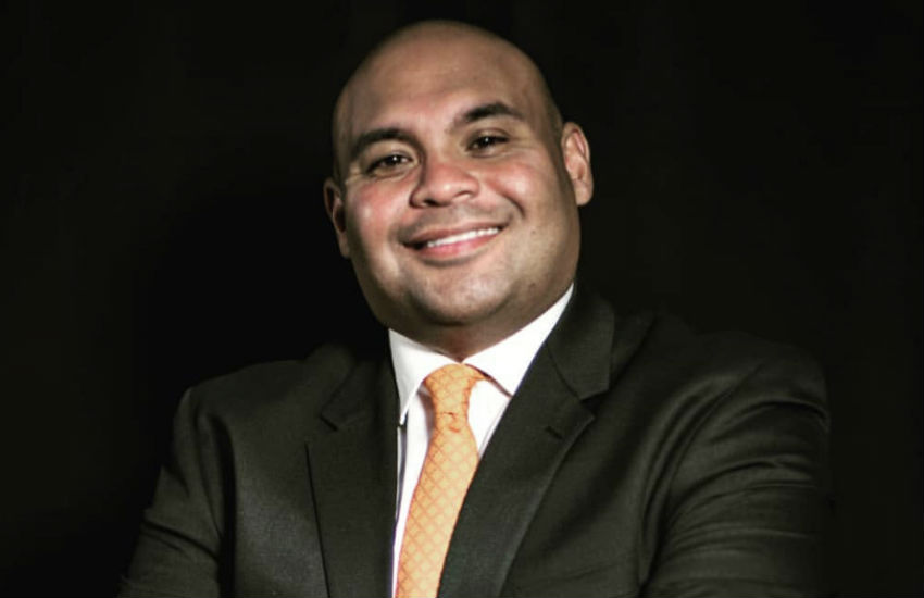 First Openly Gay American Lieutenant Governor